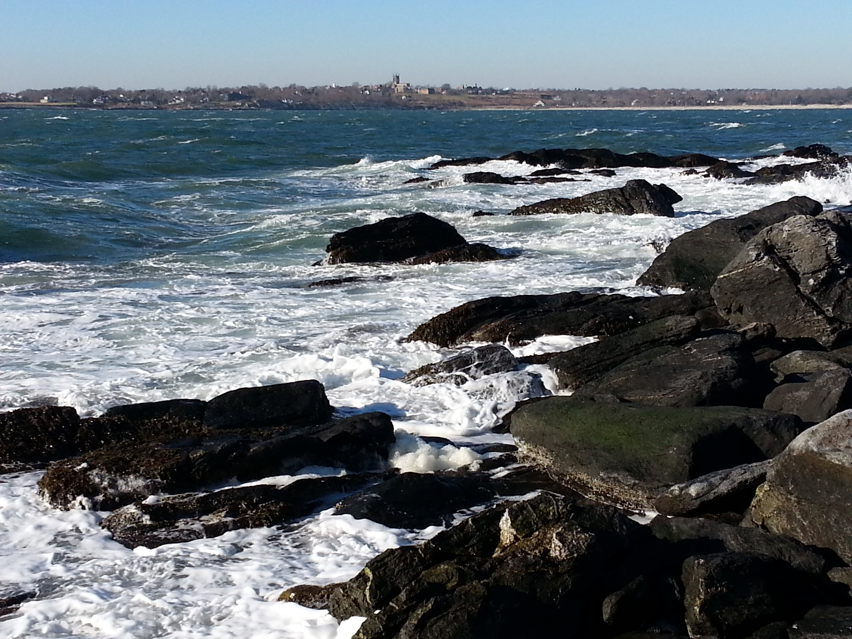 Coastline at Sachuest Point National Wildlife Refuge in Middletown, Rhode Island. St. George's School visible in the background. Taken 2013-12.